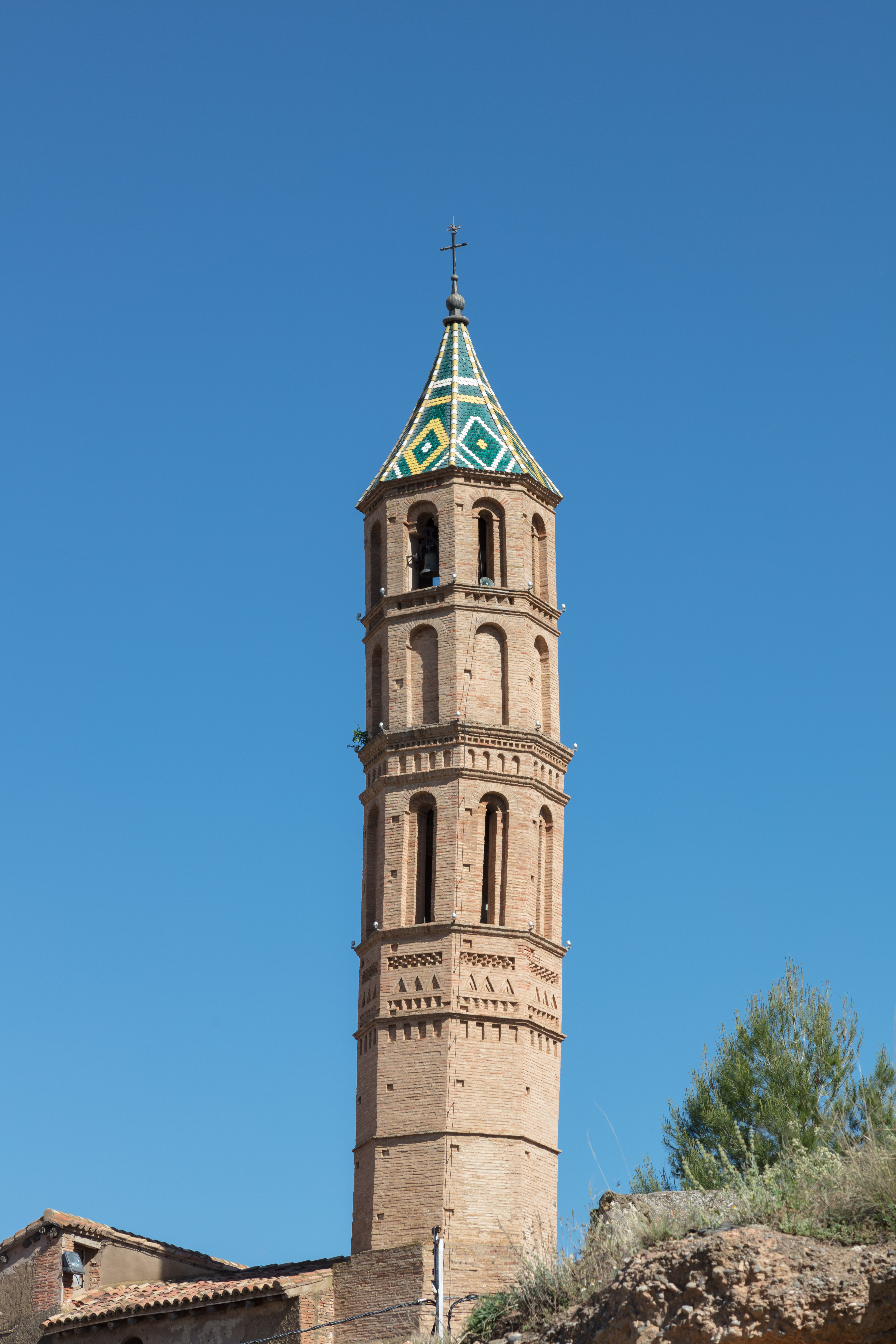 Tower of the church of St Martín de Tours, Torrellas, Saragossa, Spain